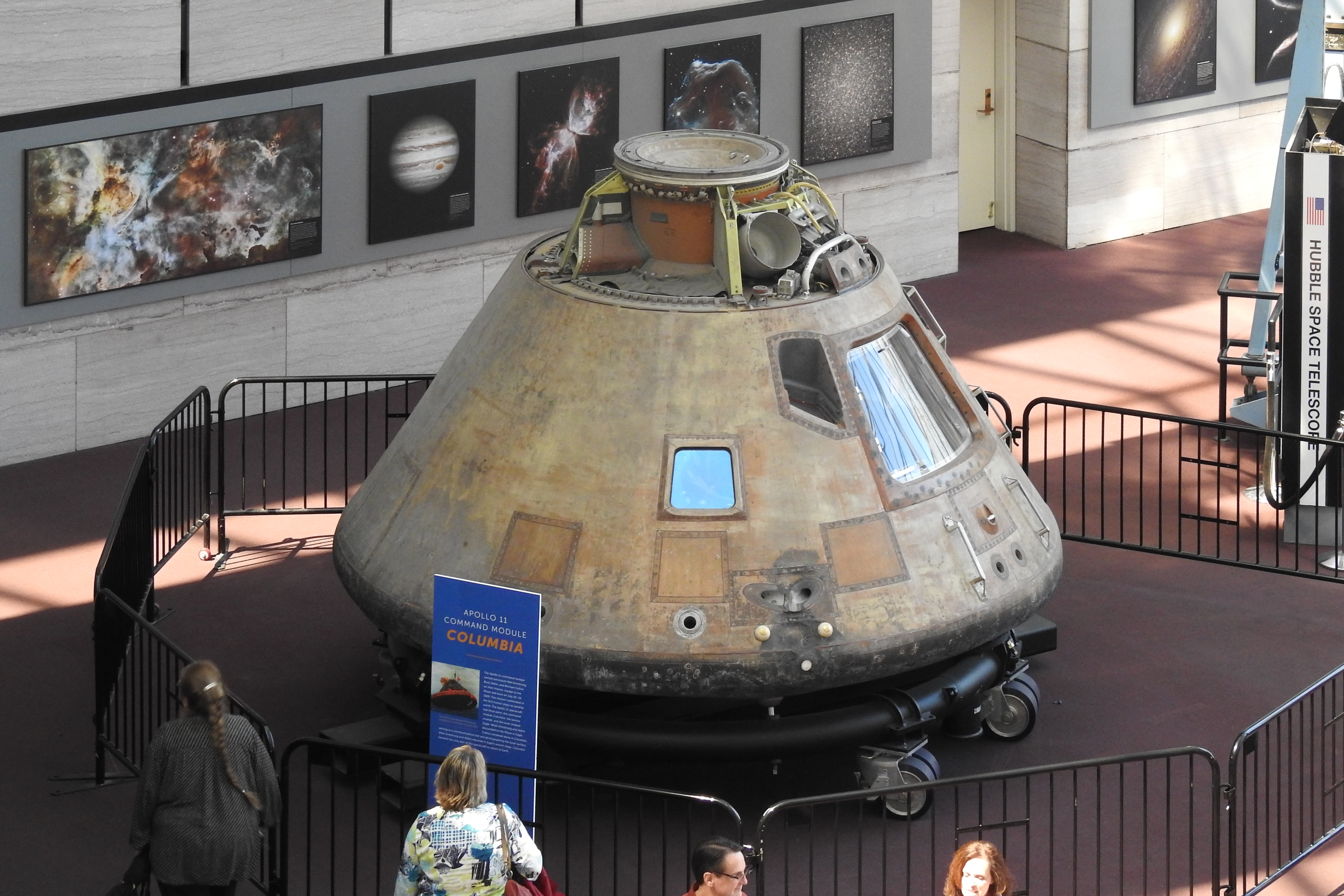 8727-National-Air-and-Space-Museum